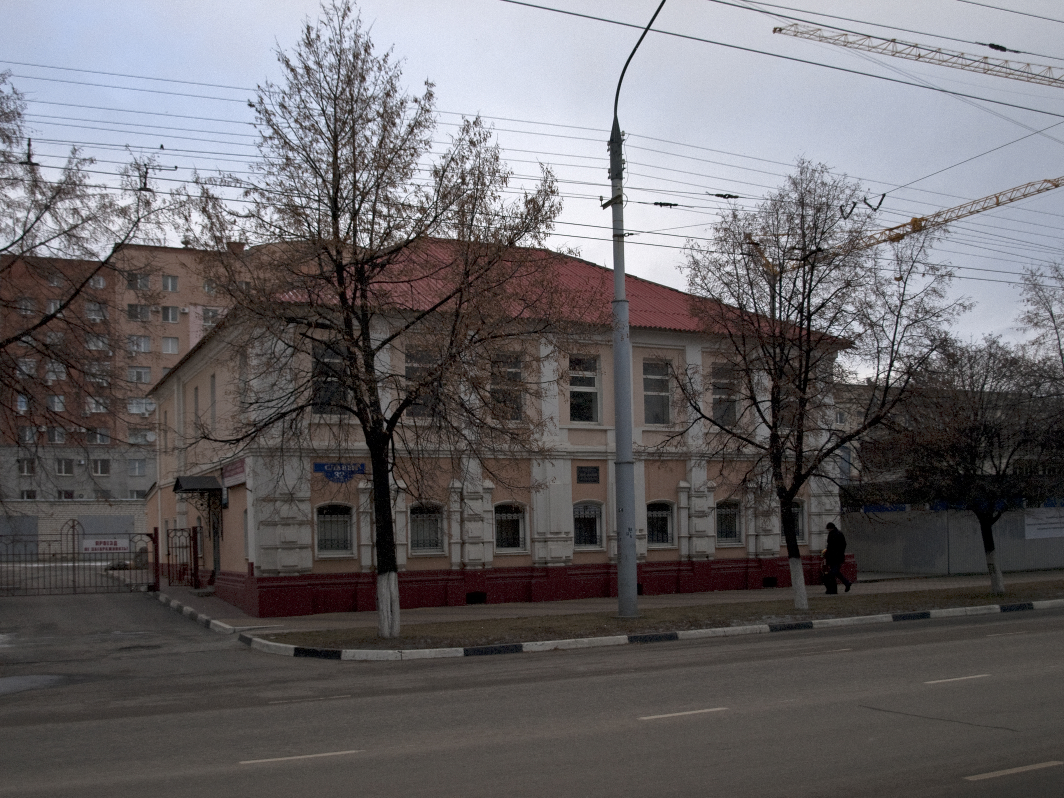 Slavy Avenue 32, Belgorod